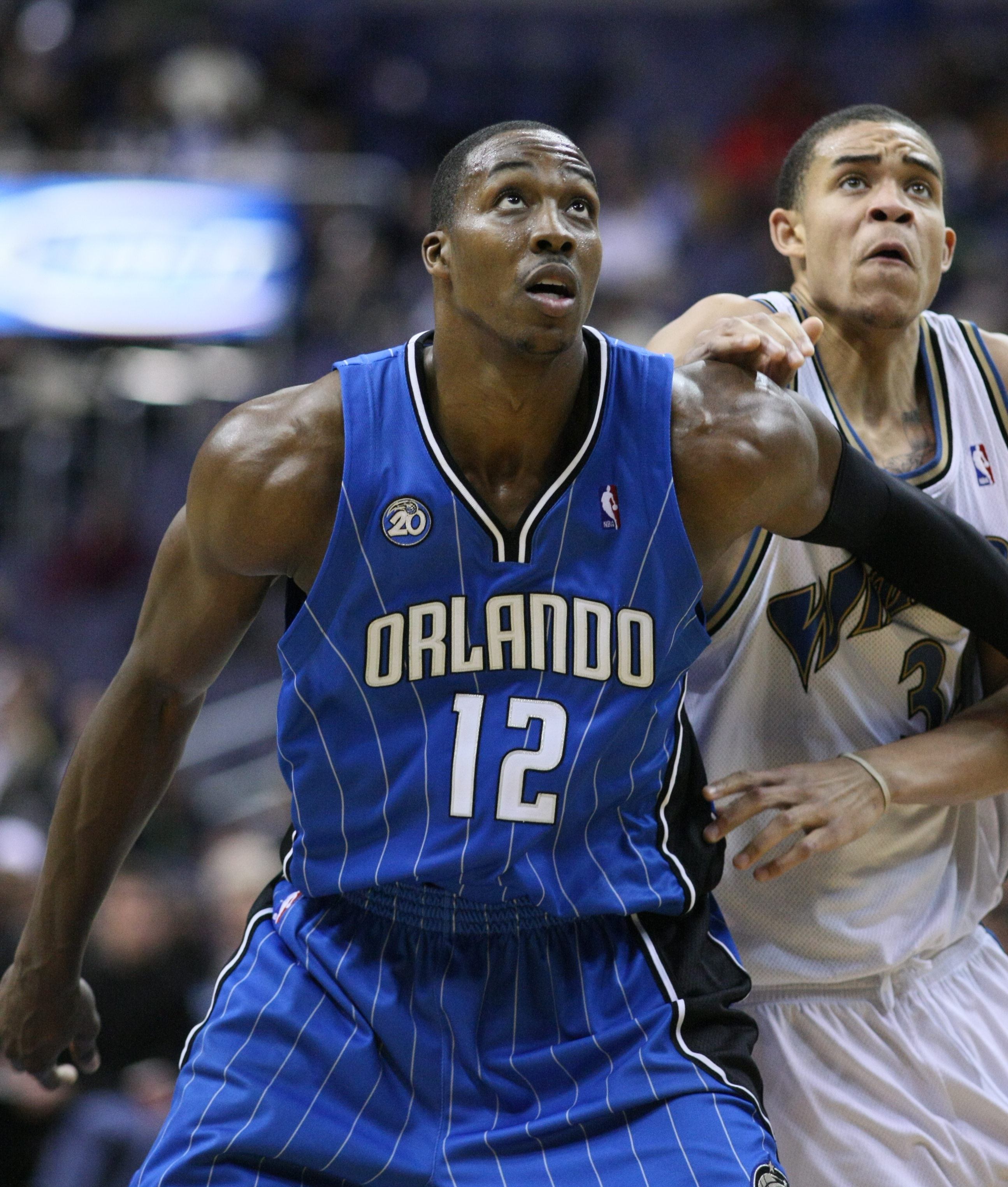 Dwight Howard and JaVale McGee in action at the Orlando Magic v/s Washington Wizards Game on 11/27/08